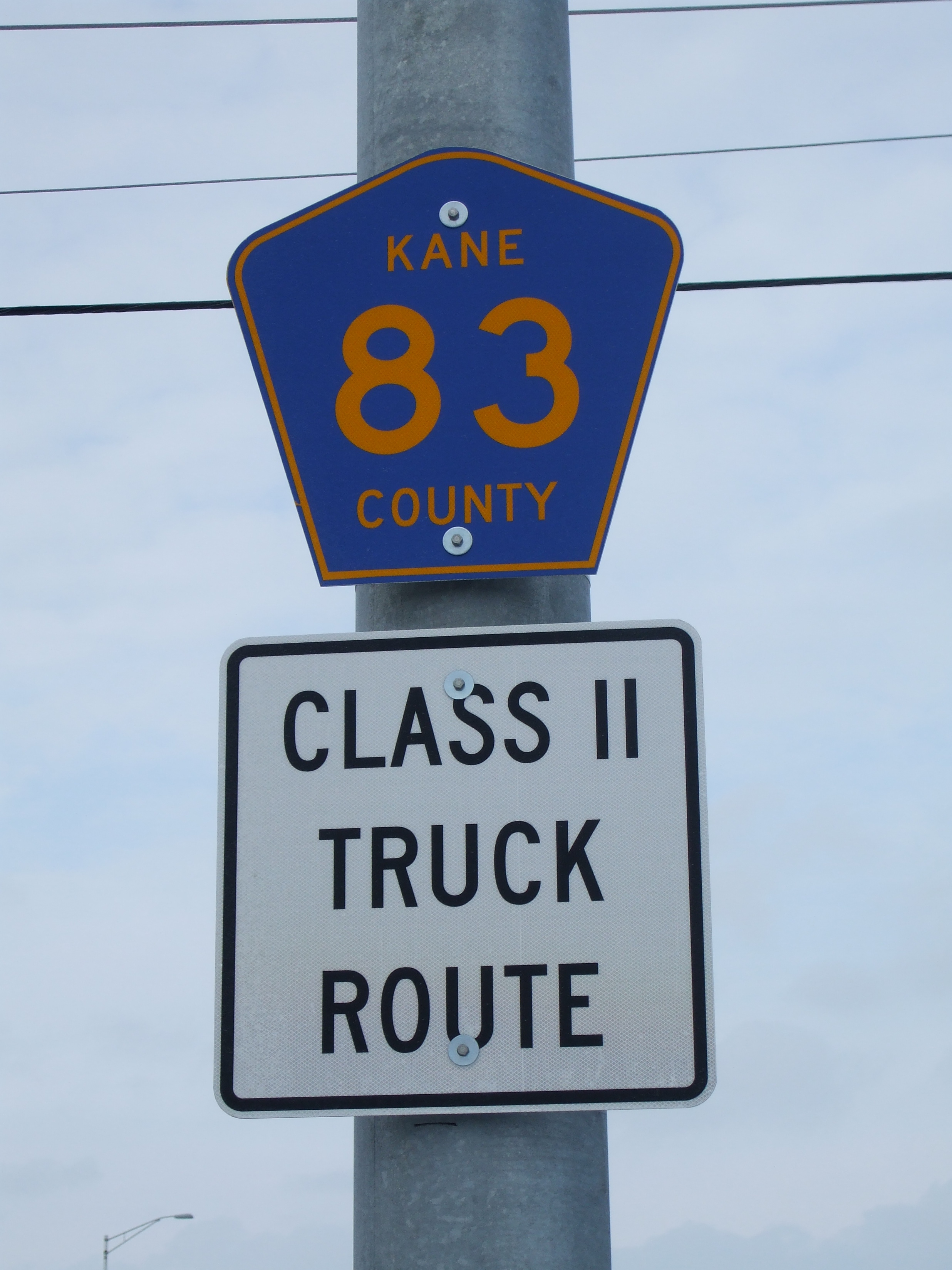 A shield for Kane County Highway 83 (Orchard Road) on a stoplight at Jericho Road in Aurora, Illinois.